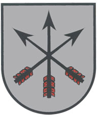 1592 coat of arms of Chyhyryn, Ukraine.